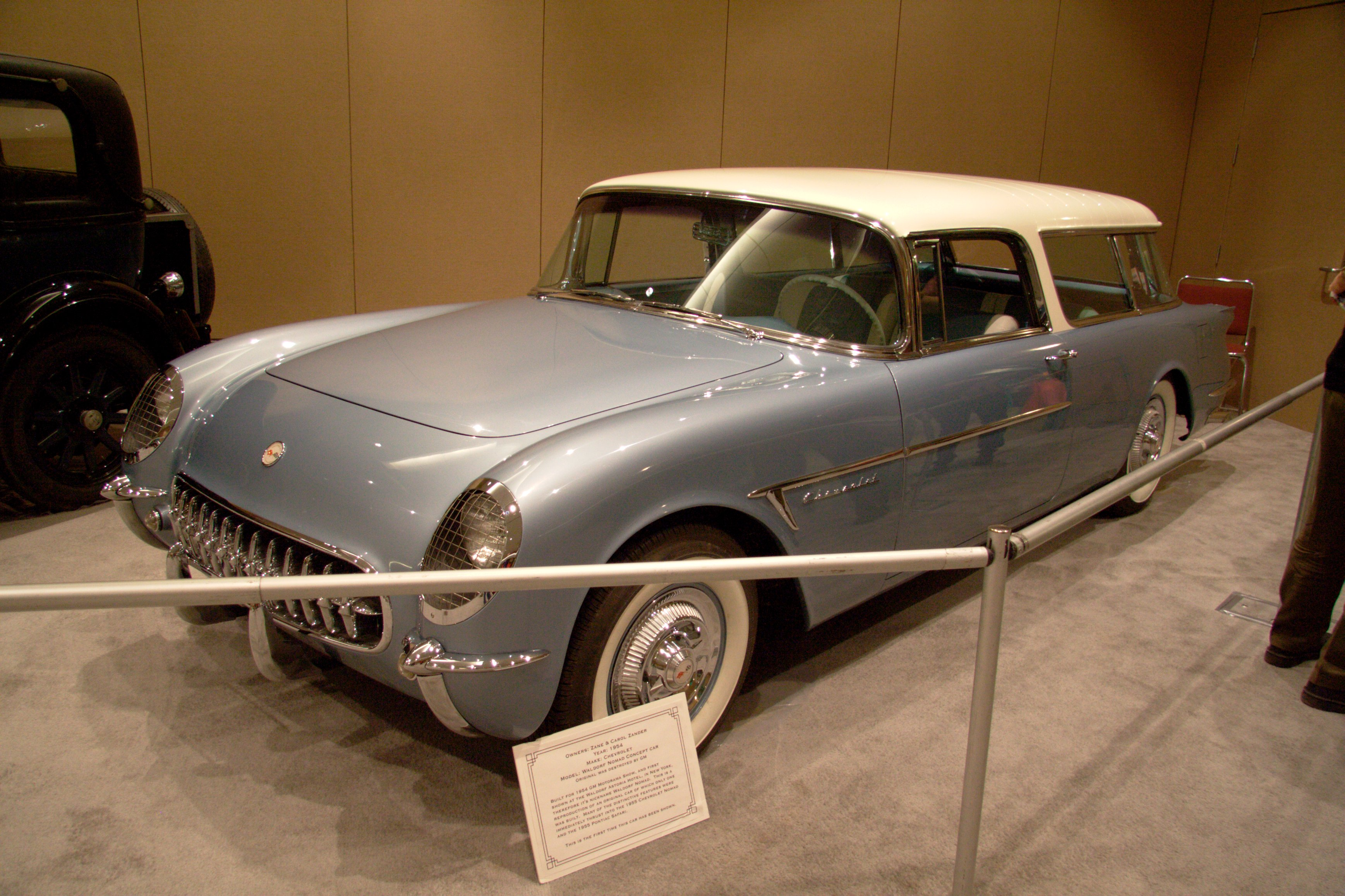 A reproduction of the 1954 Chevrolet Nomad concept car shown at the Waldorf Astoria. It has a Corvette front end and tail lights.